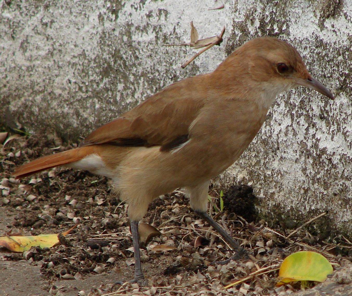 Rufous Hornero (Furnarius rufus) eating on the ground. Porto Alegre, Brazil